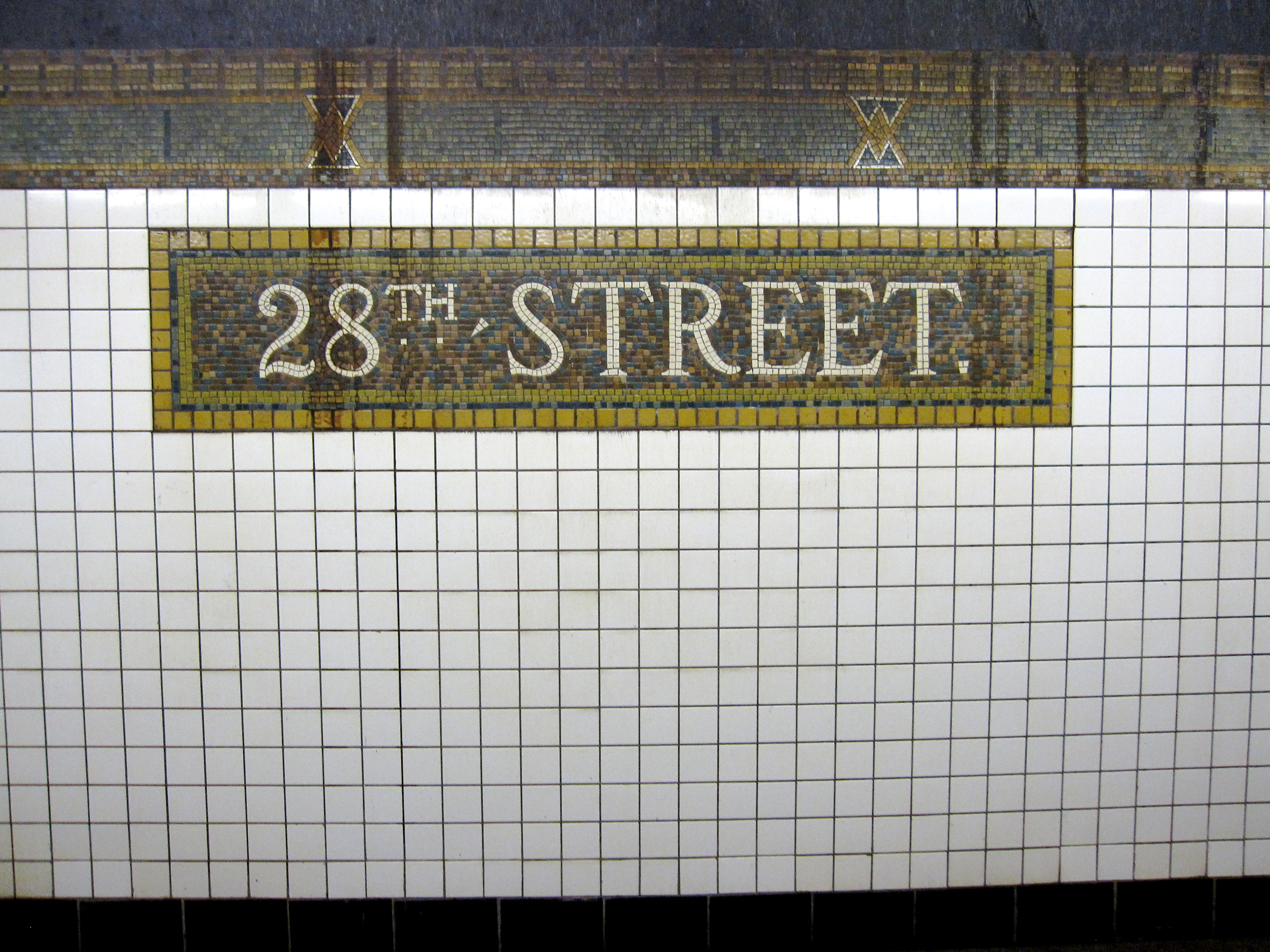 28th Street (IRT Broadway – Seventh Avenue Line)